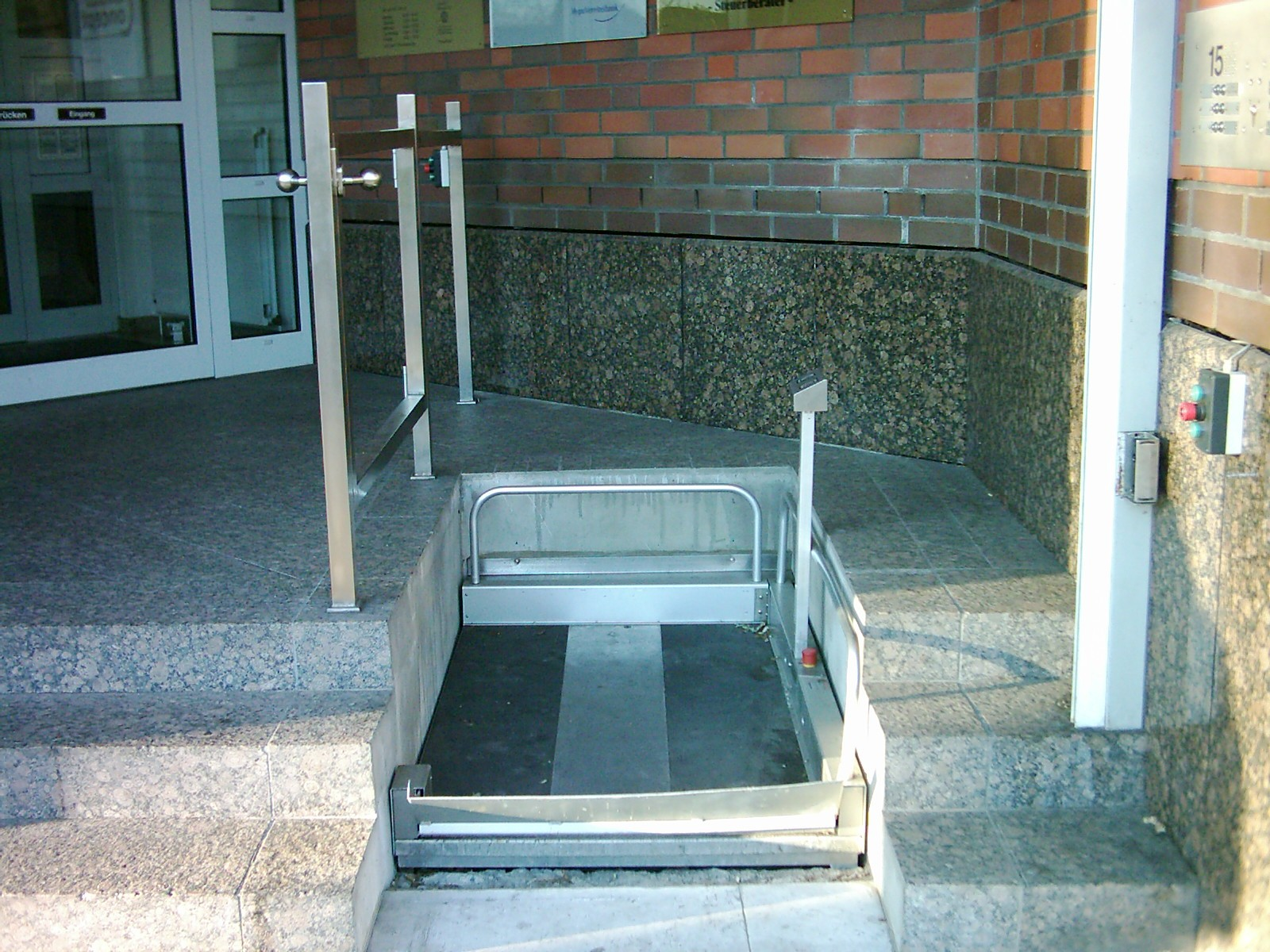 Wheelchair lift in Hamburg, Germany.